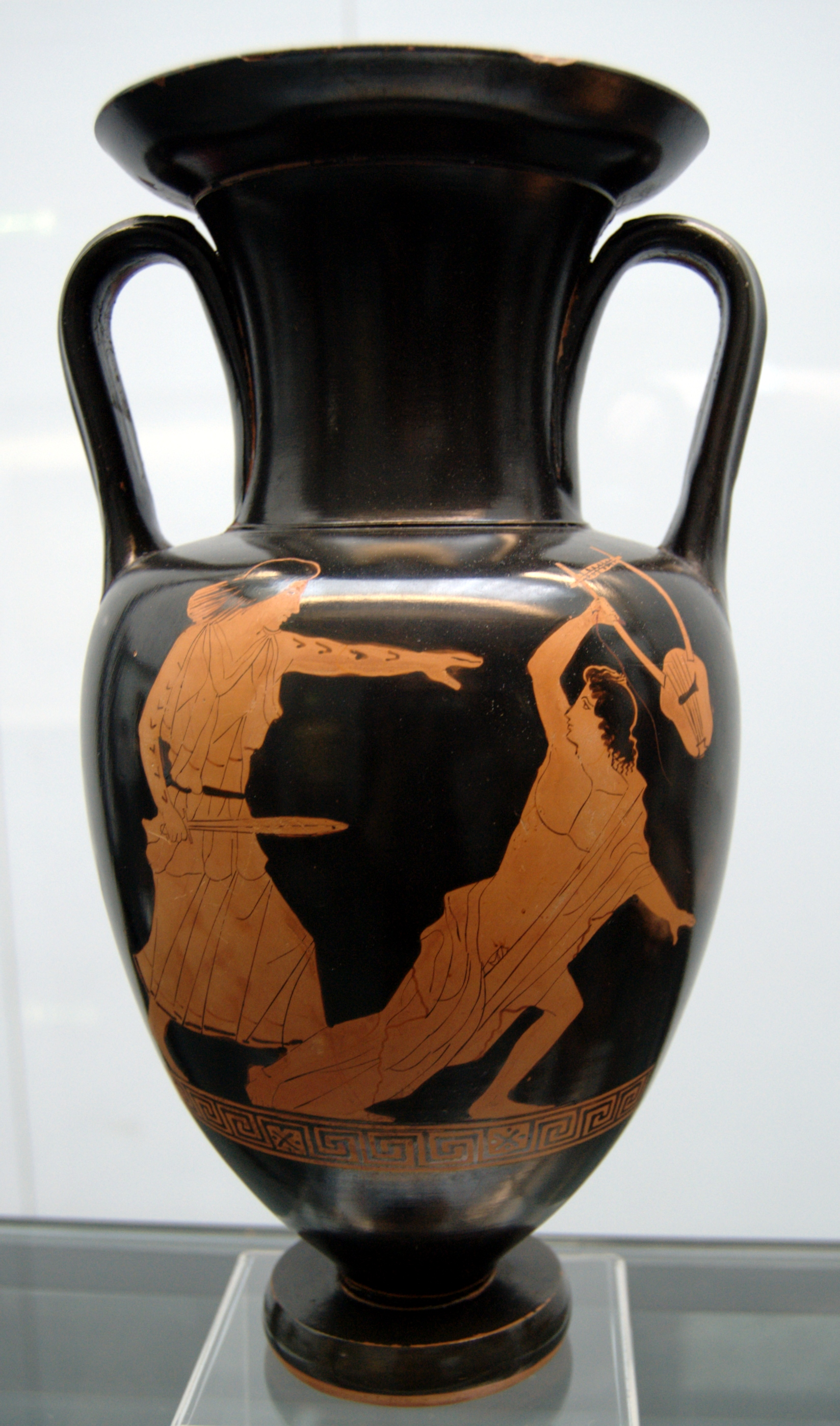 Death of Orpheus. Attic red-figure amphora, ca. 440 BC. From Nola.